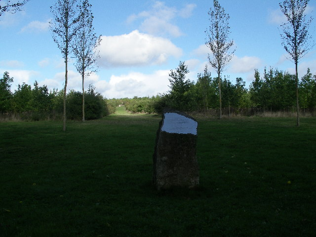 Ardington and Lockinge Community Woodland. The stone and plaque are part of the Millennium sundial. Looking north from road into Ardington.